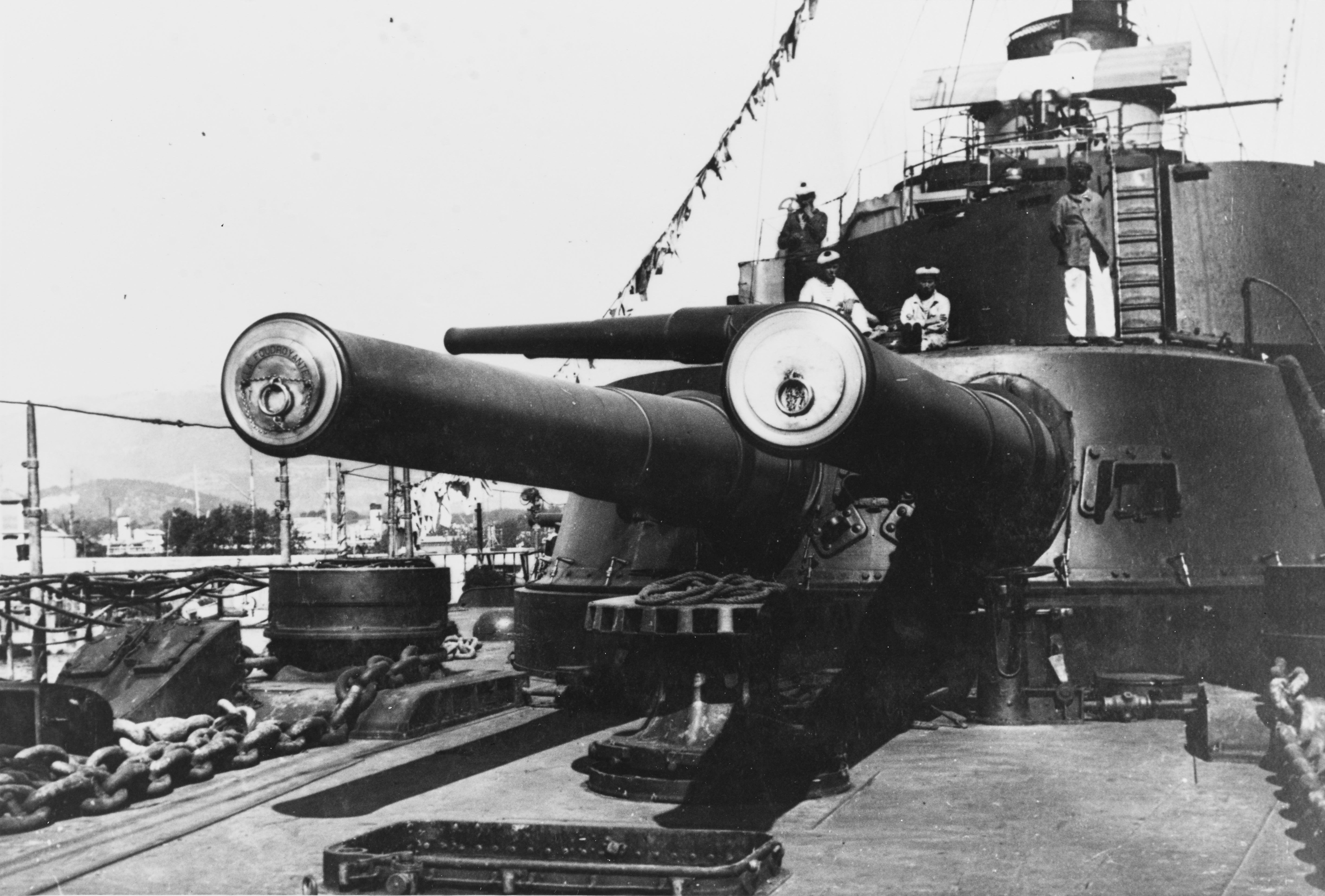 "Forward turrets photographed by Robert W. Neeser, probably at Toulon, France, circa 1919. Note the triplex rangefinder on the conning tower." This version has been cropped by uploader.